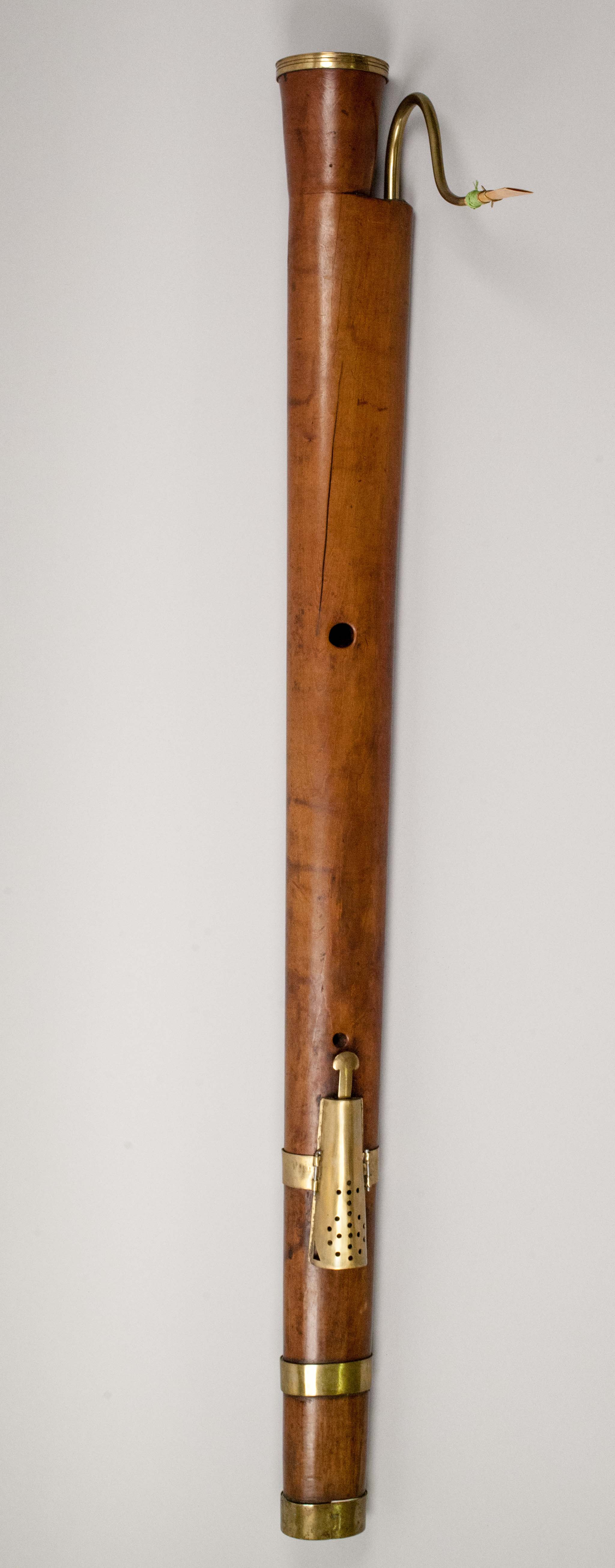 Dulcian, 1700, Museu de la Música de Barcelona